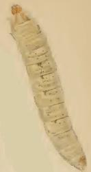 Stainton’s Natural History of the Tineina (1855–1873): Elachista atricomella